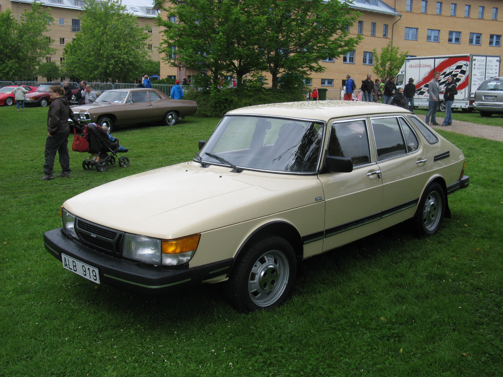 The first owner of this car was fomer Swedish Prime Minister Olof Palme. First registered in December 1983, this is a 1984 Saab 900 GLi five-door, chassis number AM55J4E3002680.